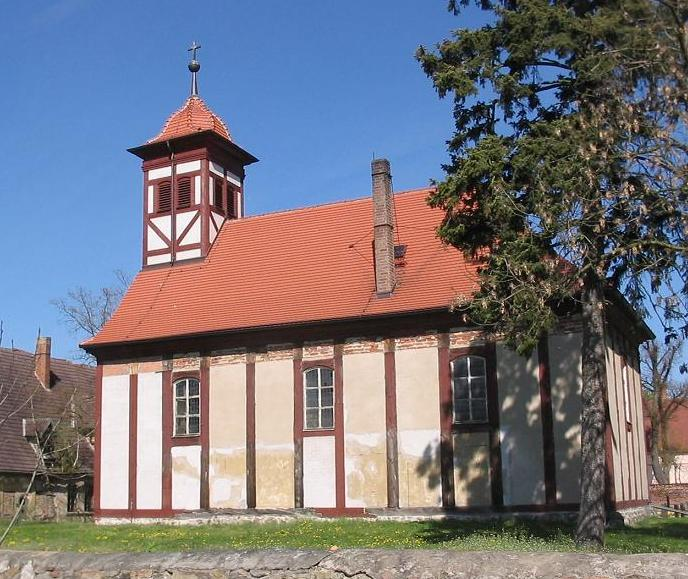 Timbered church, built in 1717. Nedlitz is a municipality in the Nature park Fläming in the district Anhalt-Bitterfeld, state Saxony-Anhalt, Germany.